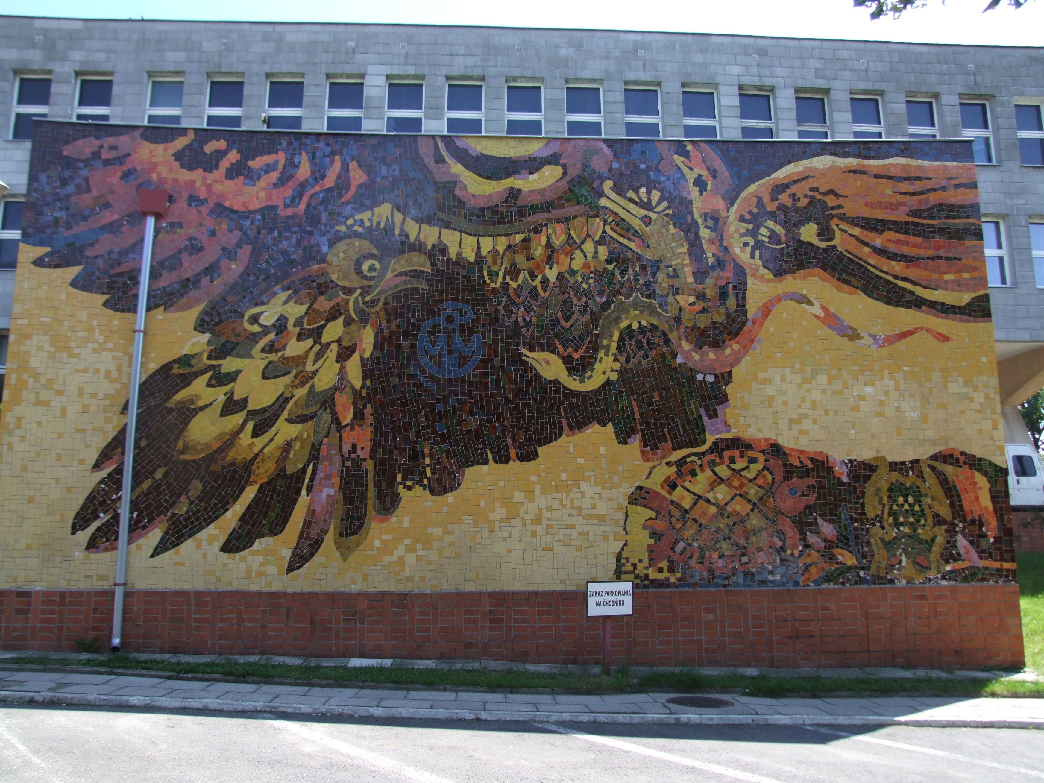 Mosaic of birds — on wall. University Centrum Medycyny Morskiej i Tropikalnej — Gdynia, Poland.